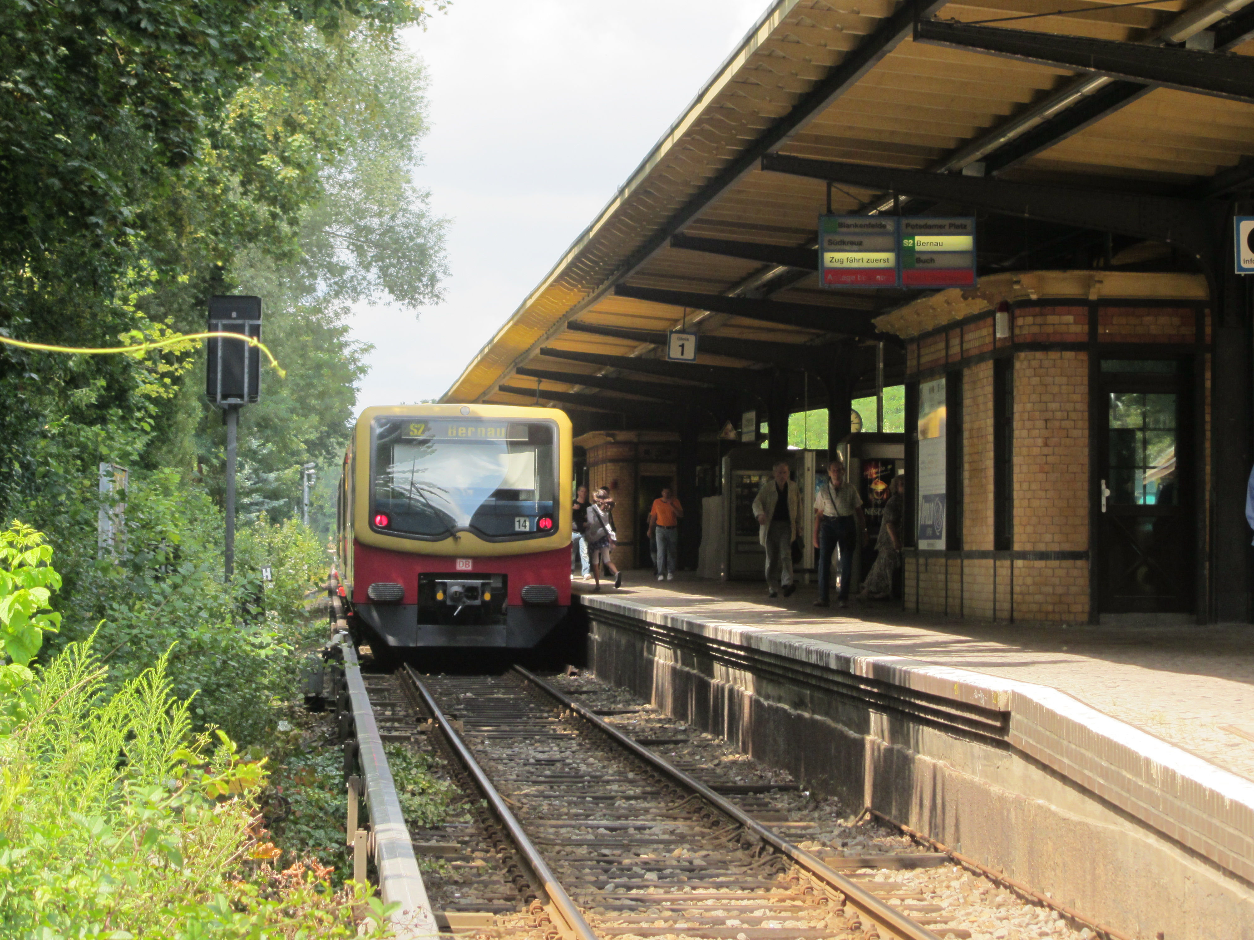 A train of line S2 ready to depart to Bernau from Berlin S-Bahn station "Lichtenrade"